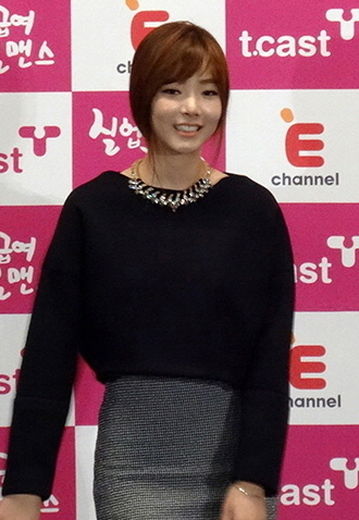 Bae Seul-ki at the press conference of E Channel Unemployed Benefit Romance (drama)